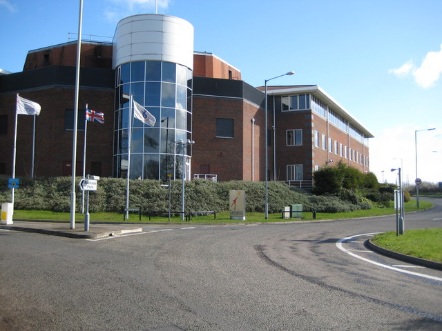 Watford: Camelot Head Office, Tolpits Lane Camelot is the licensed operator of the UK National Lottery. The National Lottery has recently revealed that the price of living the millionaire lifestyle and being "comfortably rich" in the UK has risen to £5.8 million...